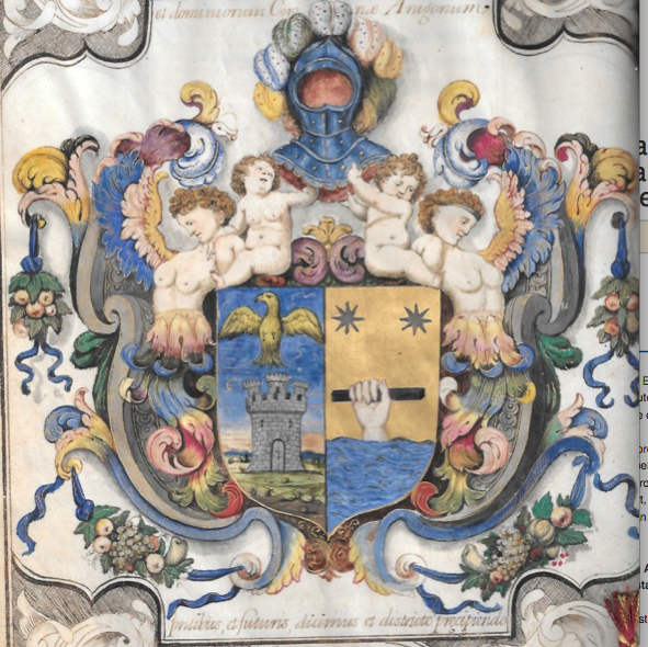 Blasón concedido por SM El Rey Carlos II de España a Baltasar de Oriol y de Marcer